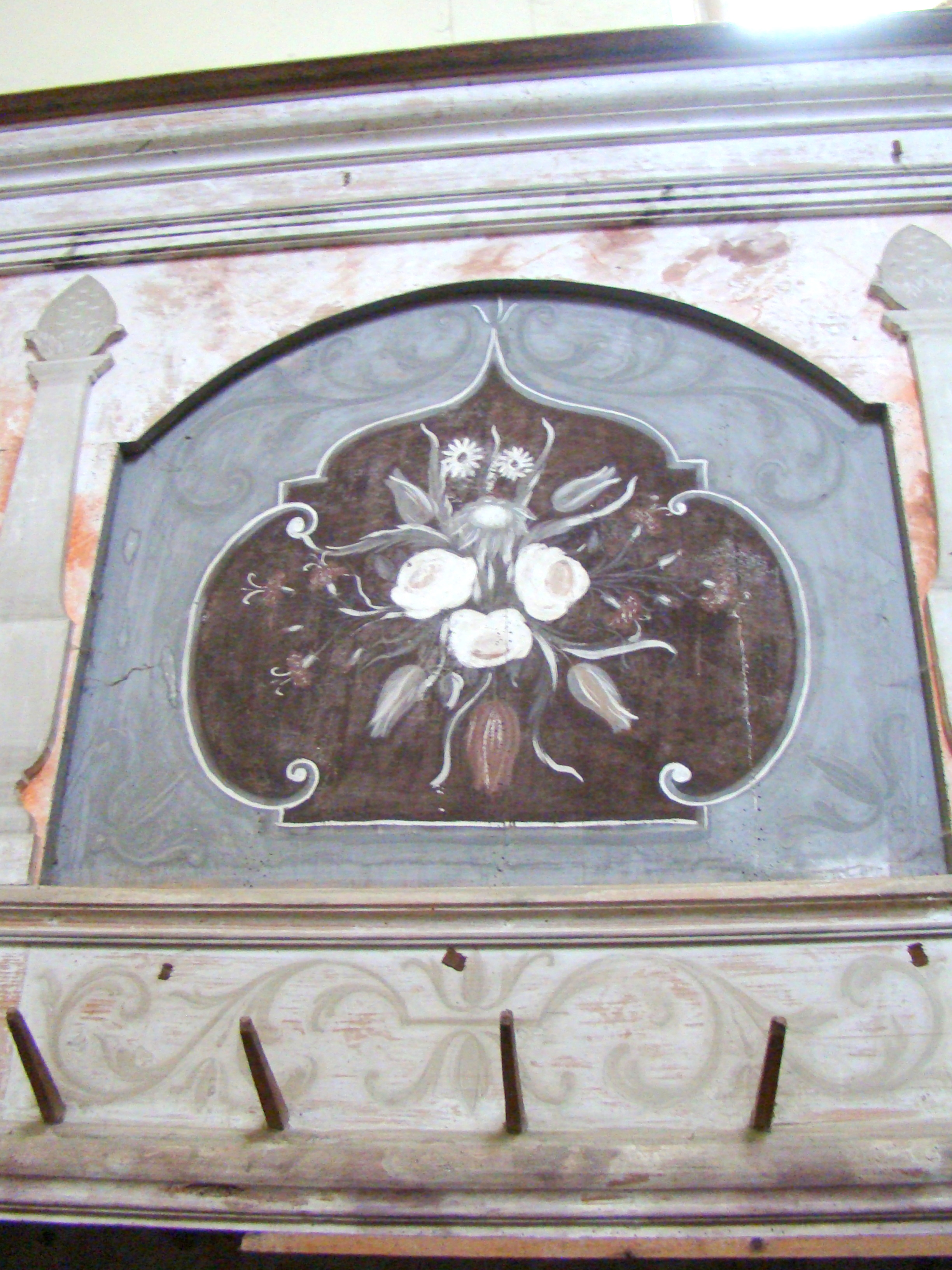 Lutheran church in Beia, Braşov county, Romania